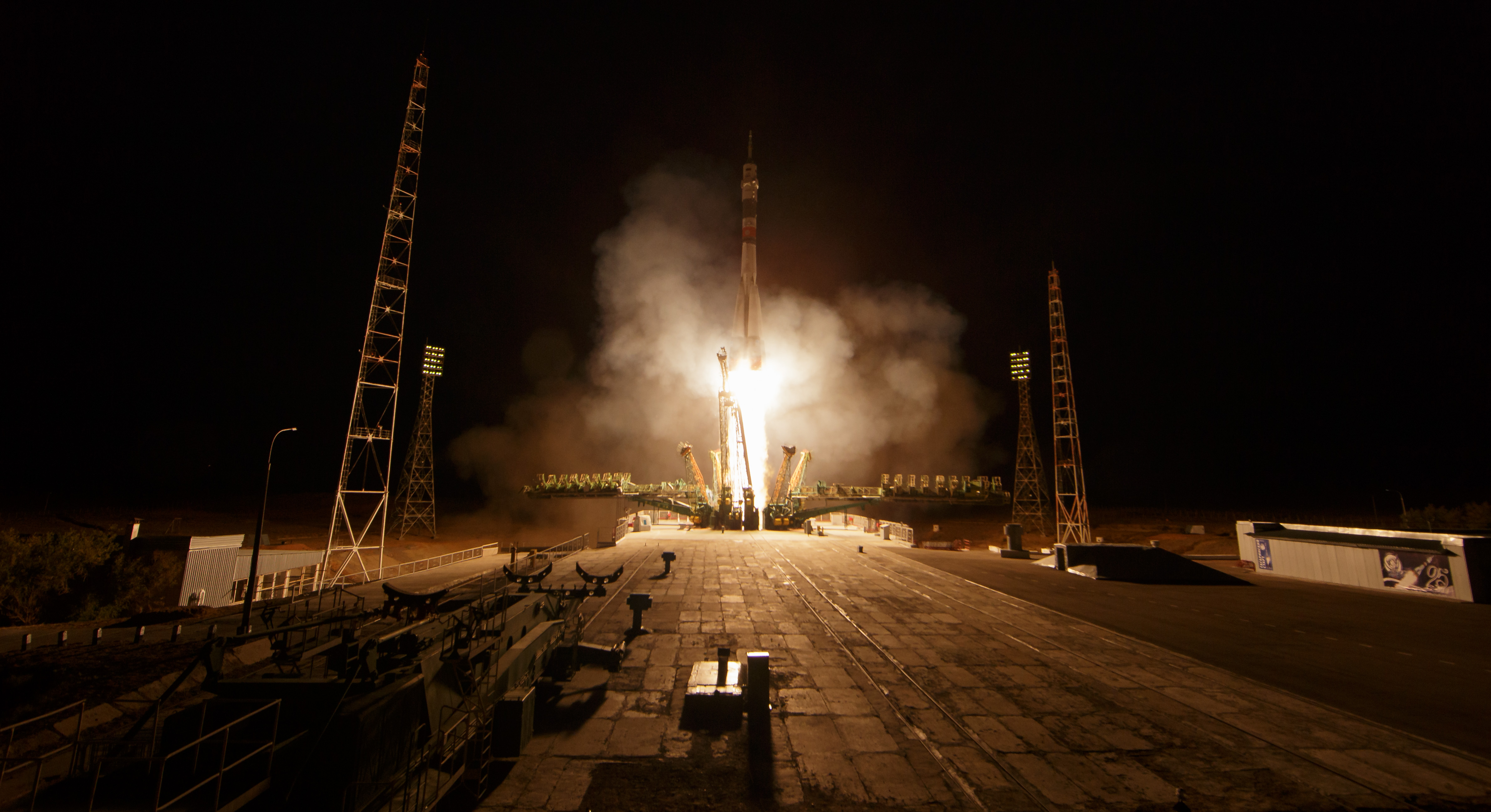 The Soyuz MS-15 spacecraft is launched with Expedition 61 crewmembers Jessica Meir of NASA and Oleg Skripochka of Roscosmos, and spaceflight participant Hazzaa Ali Almansoori of the United Arab Emirates Wednesday, Sept. 25, 2019 from the Baikonur Cosmodrome in Kazakhstan.